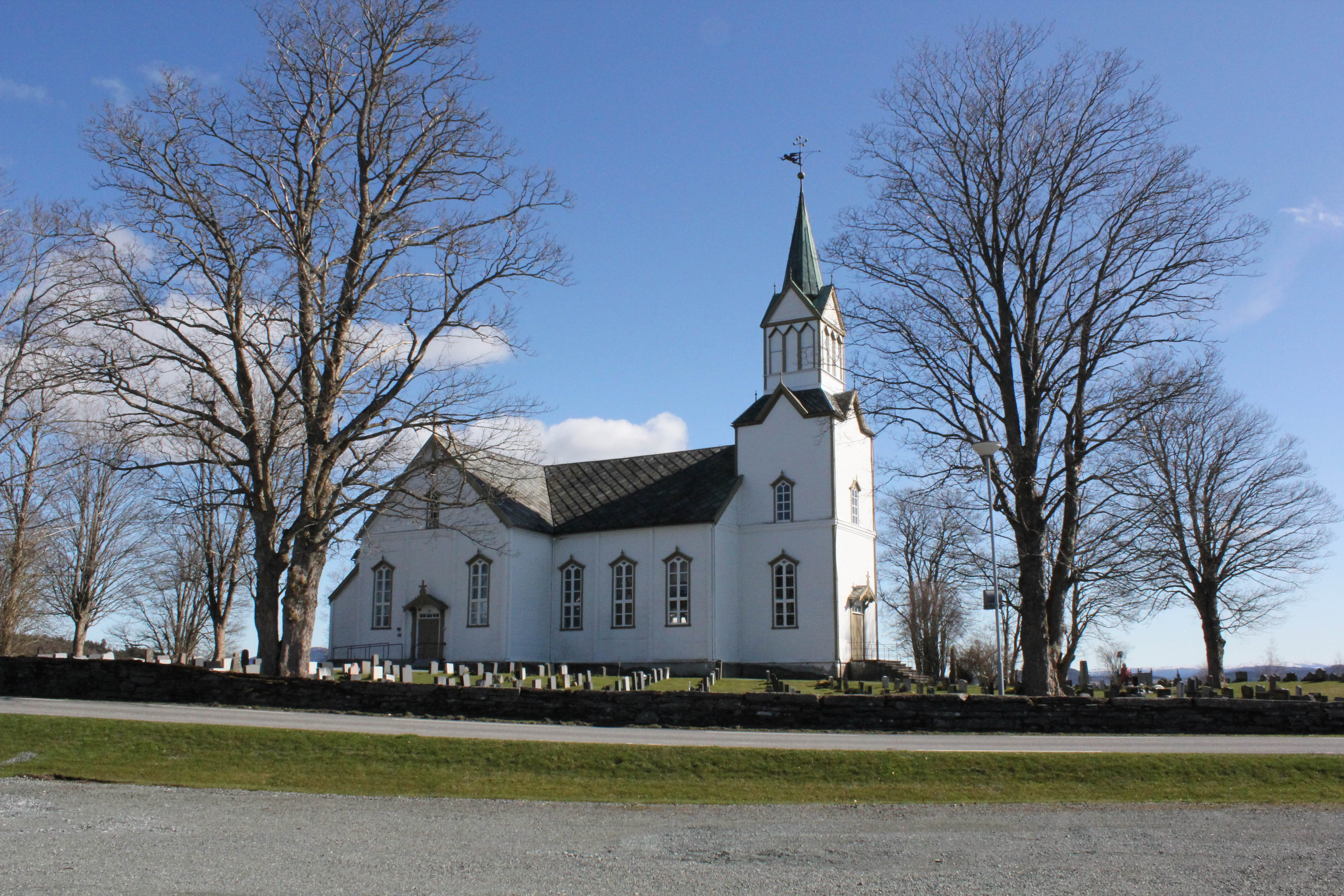 A wooden church; Frosta kirke (=Frosta church), in Frosta, Norway. Erected in 1866. Architect: Georg Andreas Bull.